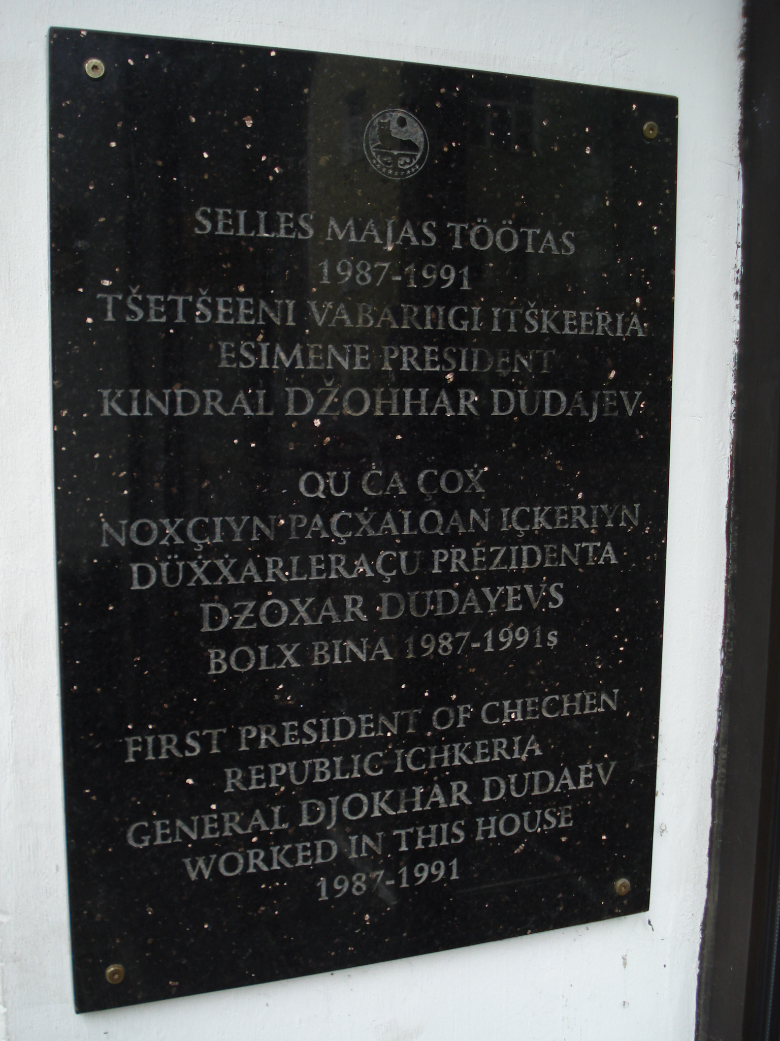 Memorial plaque marks the place of office of Dzhokhar Dudayev in the former Headquarters of the Soviet Army, now Barclay hotel